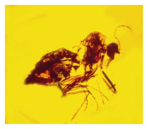 Early Cretaceous Myanmar amber biting midge (Protoculicoides sp.; Diptera: Ceratopogonidae)